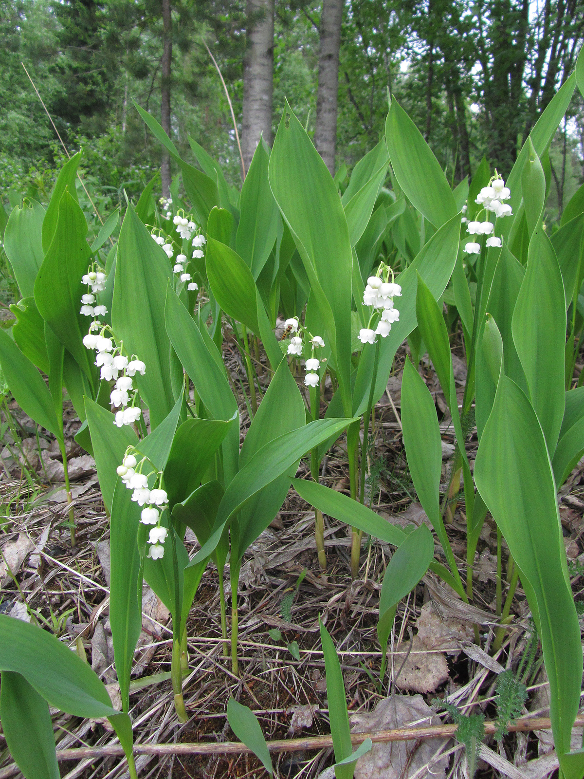 Liliaceae, Convallaria majalis